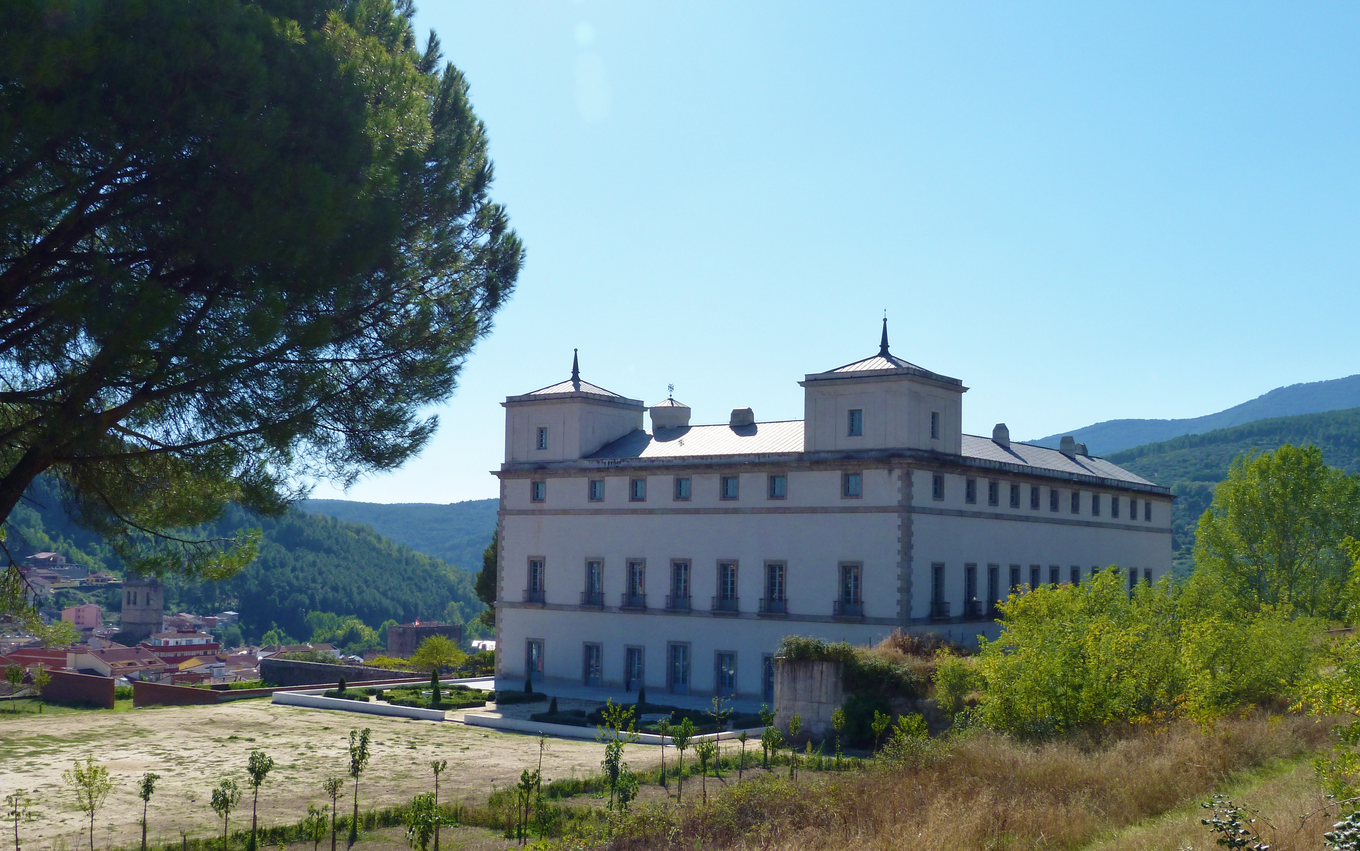 Palacio de la Mosquera de Arenas de San Pedro, Province of Ávila, Region Castile and León